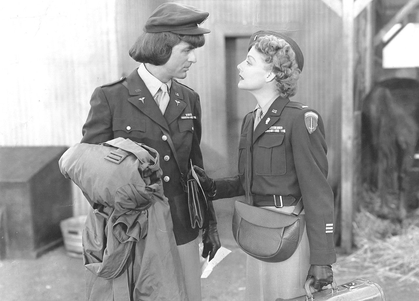 Photo from the 1949 film I Was a Male War Bride with Cary Grant. There are no copyright marks on the item.